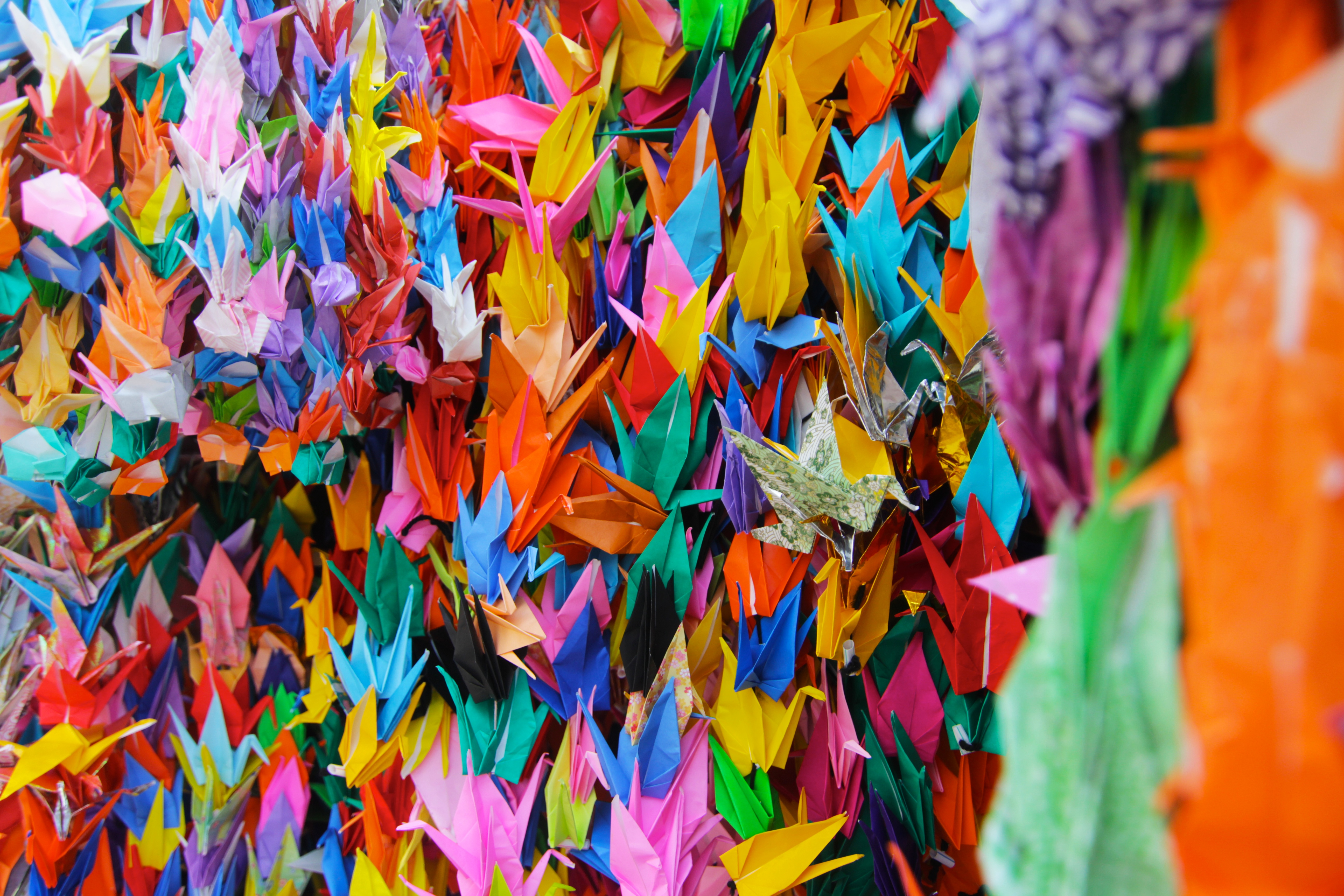 Thousand Paper Cranes